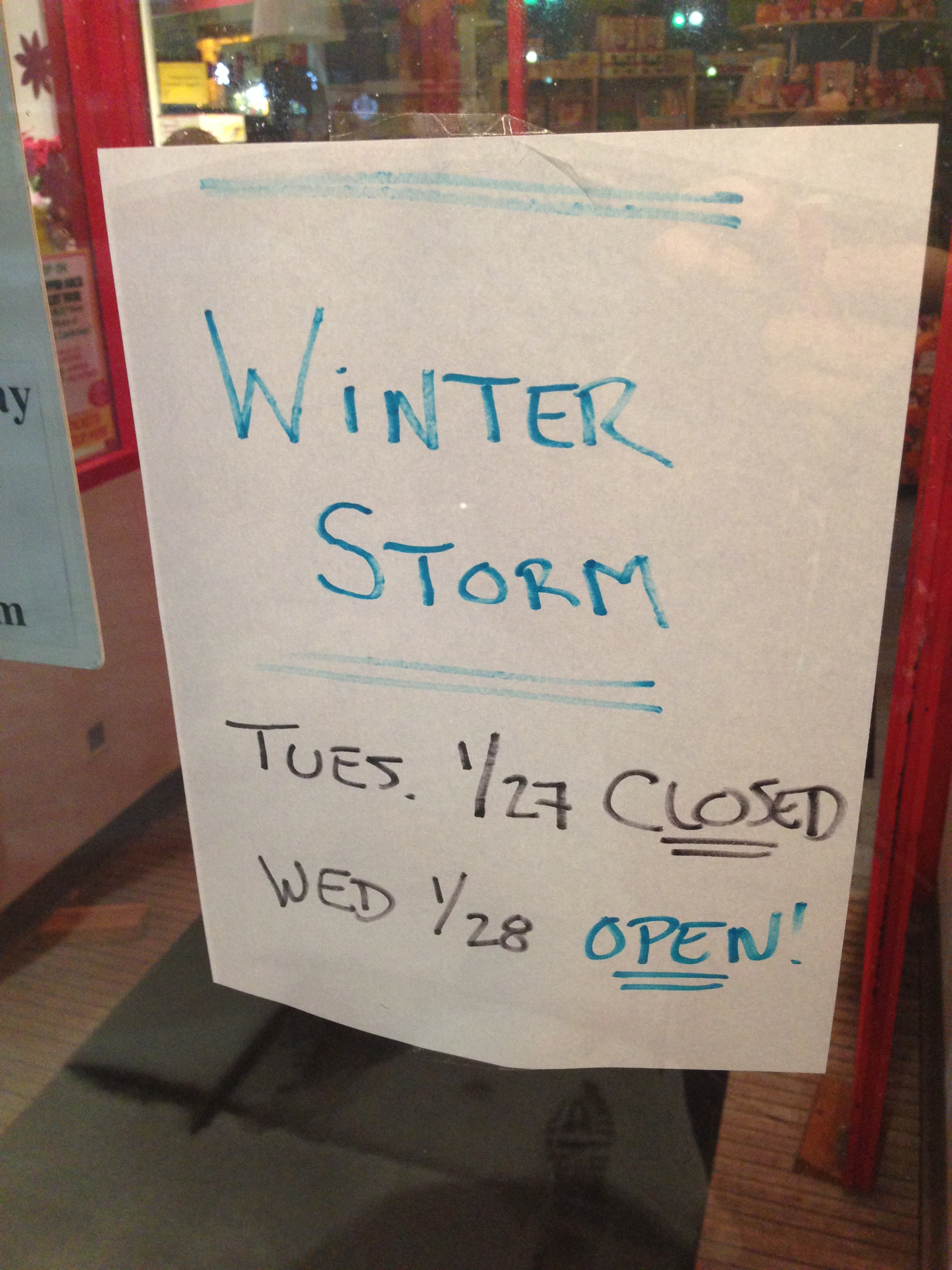 harvard square store closed january 2015